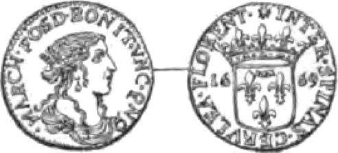 Image from Rivista italiana di numismatica 1891 (p. 153): a Luigino by M. Maddalena Malaspina Centurioni, minted in Fosdinovo